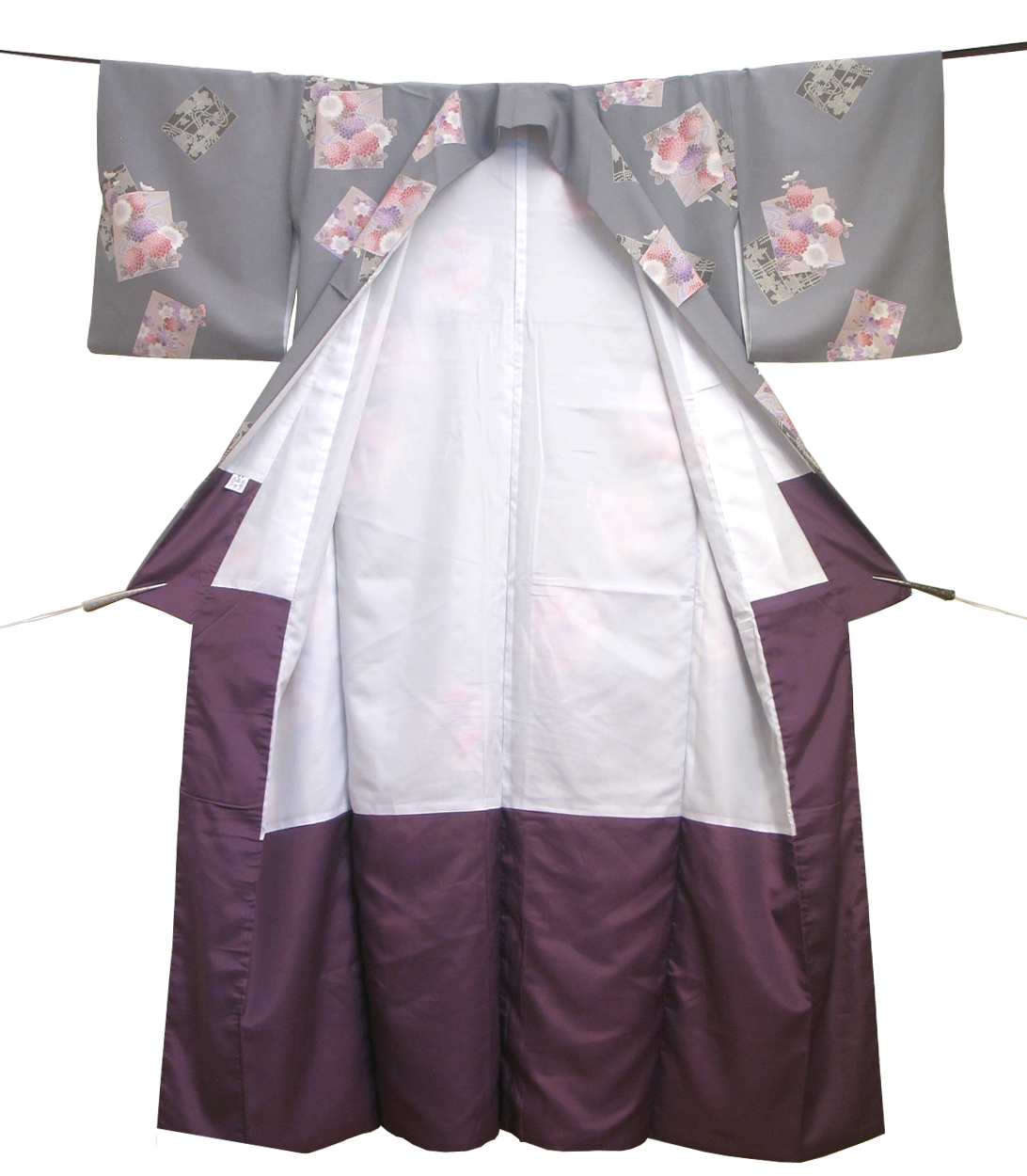 A picture of a synthetic awase komon in my collection